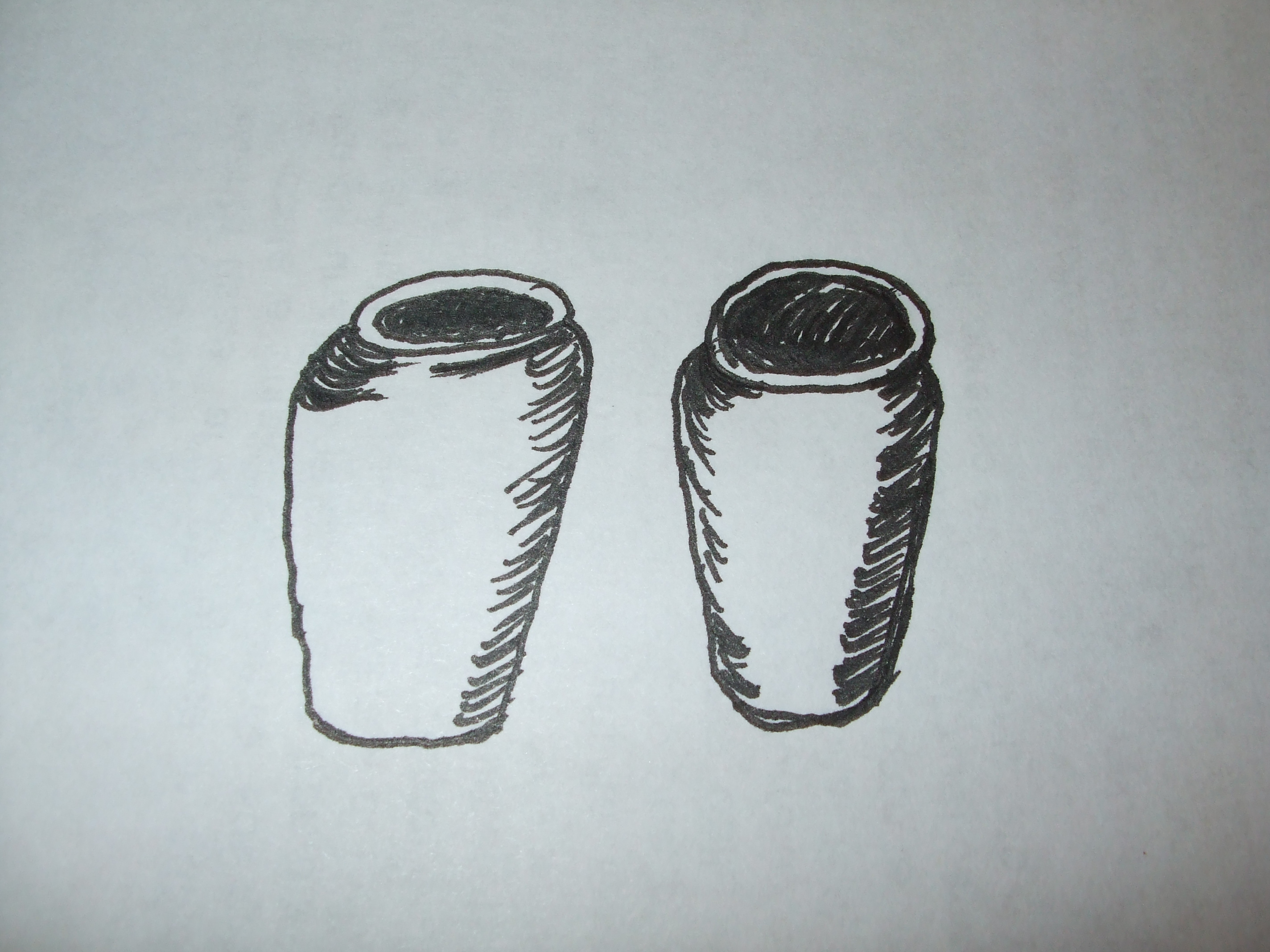 drawing of cuco ( 2): an old clay-made jar once used in Veneto (Northern Italy) to contain vegetables and other food